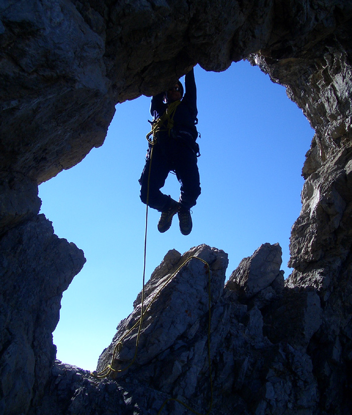 Hole subapical of Piz Ela, Savognin, Tinizong-Rona, Filisur, Bergün, Grisons, Switzerland